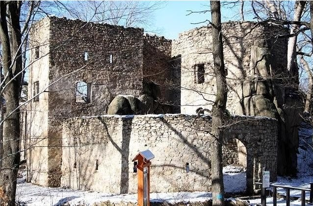 Castle Bolczow